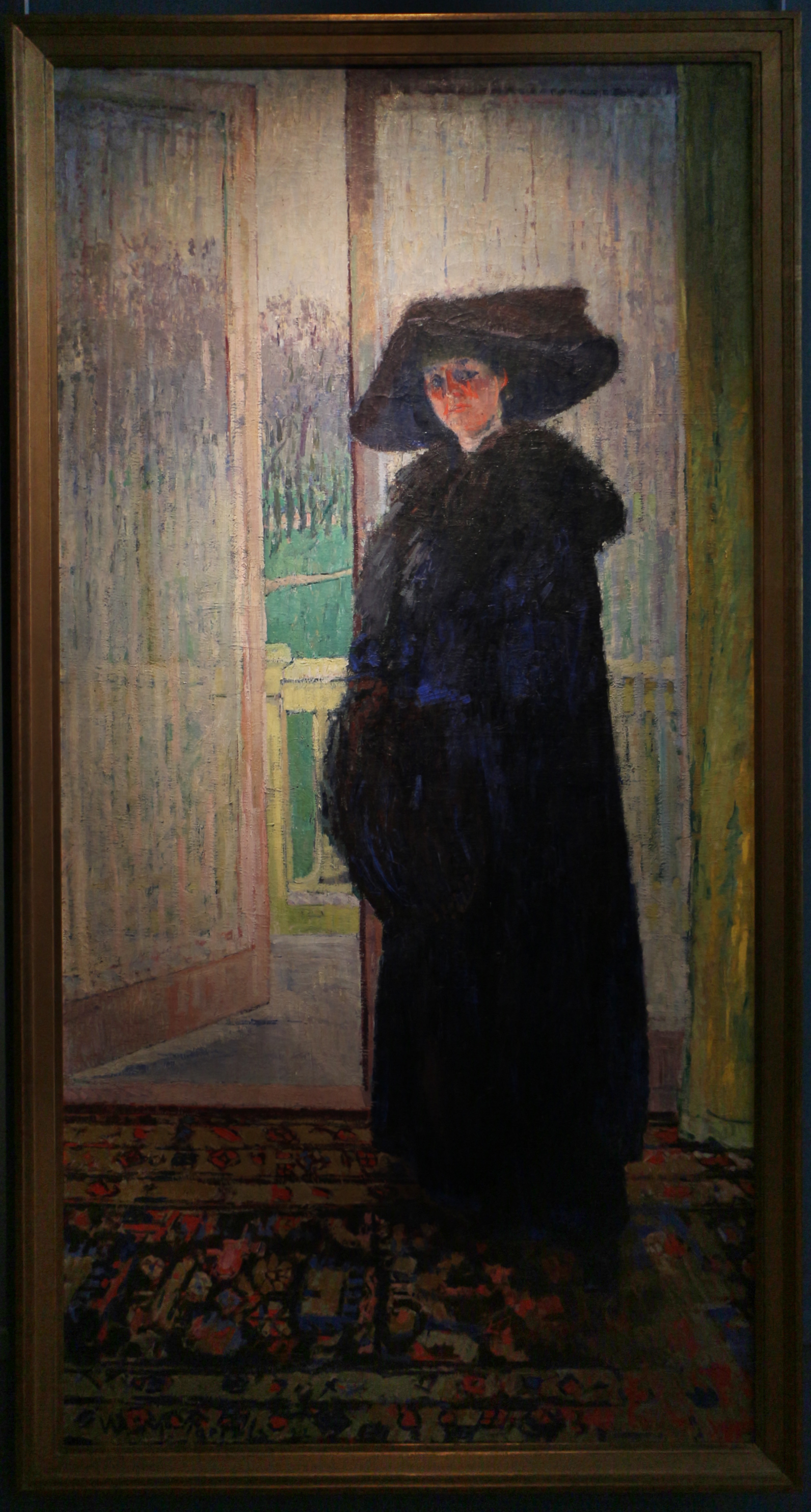 Museum of Ixelles